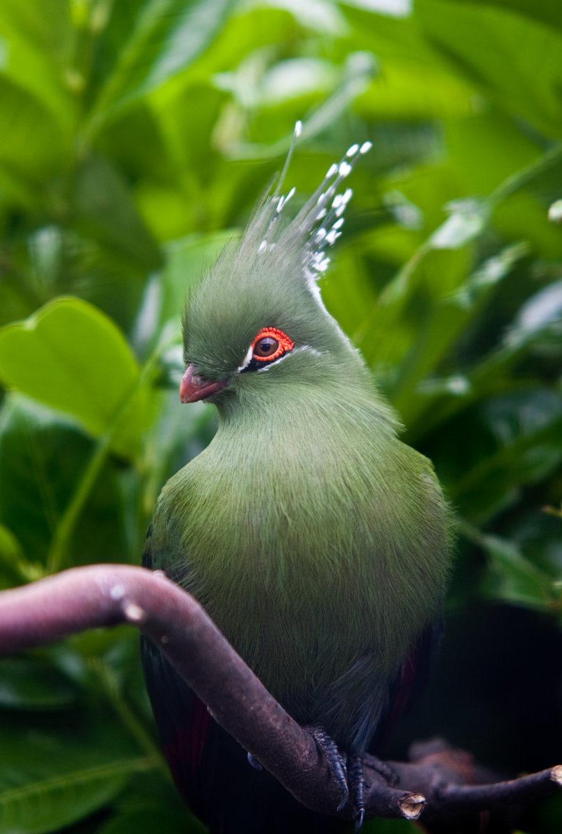 A Schalow's Turaco in the collection of Lotherton Hall, Leeds, England. The species identity is confirmed by the thin white facial stripes, the robust bill of uniform colour, and the ample width of the eye-ring. The apparent length of the crest is of secondary importance.